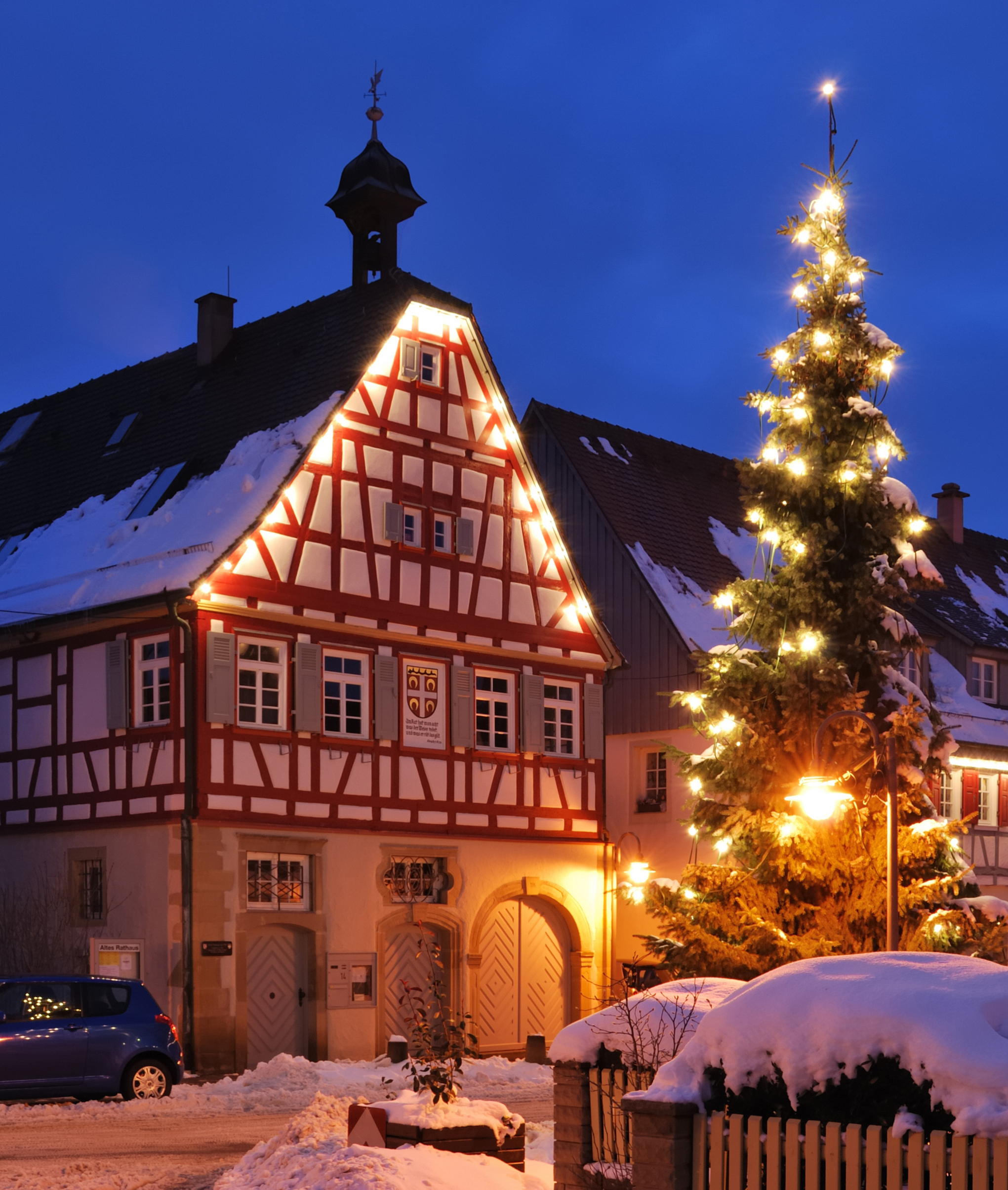 The former municipal hall in Schöckingen in Baden-Württemberg, Germany, with christmas illuminations.